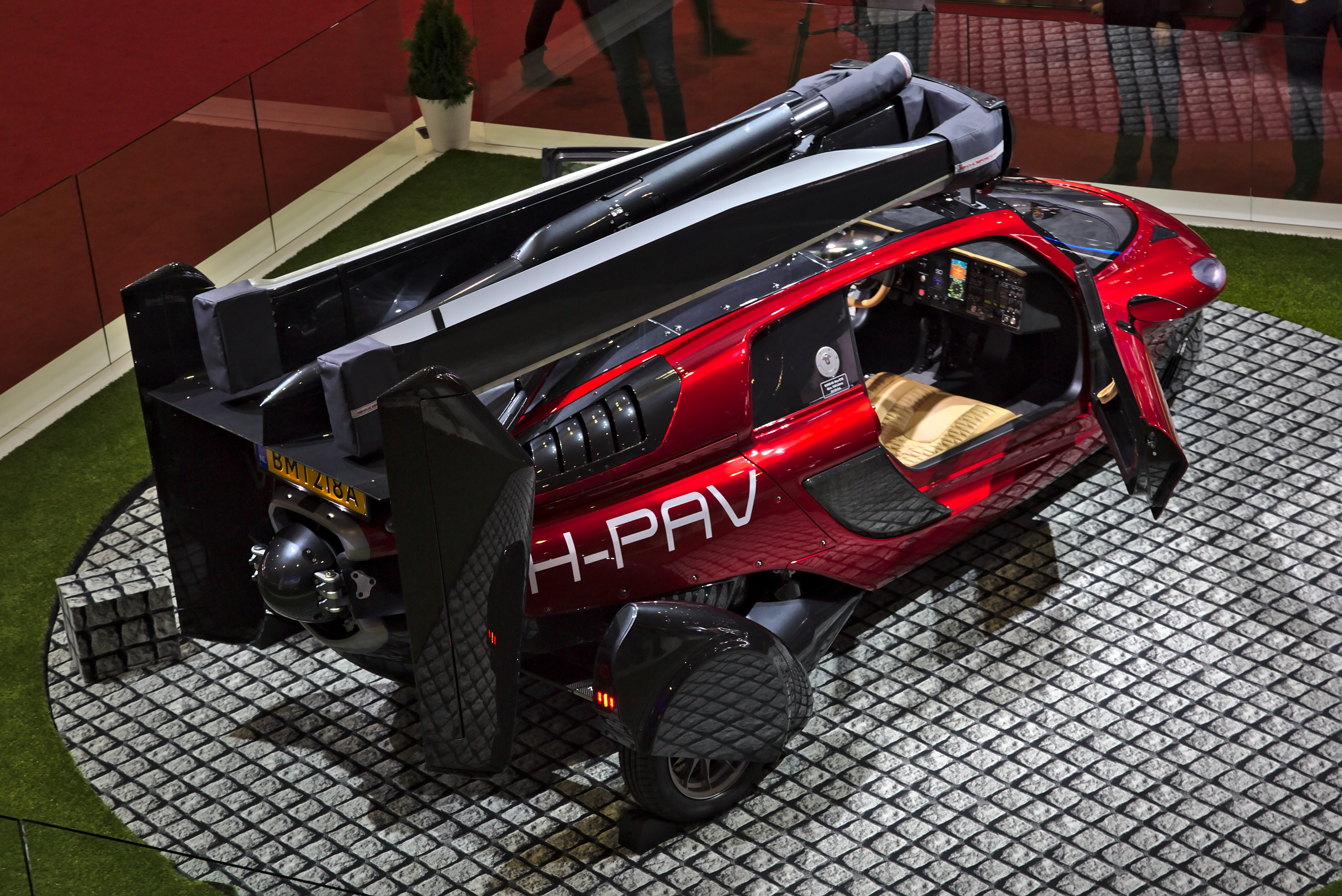 Pal-V at Geneva Motorshow 2018